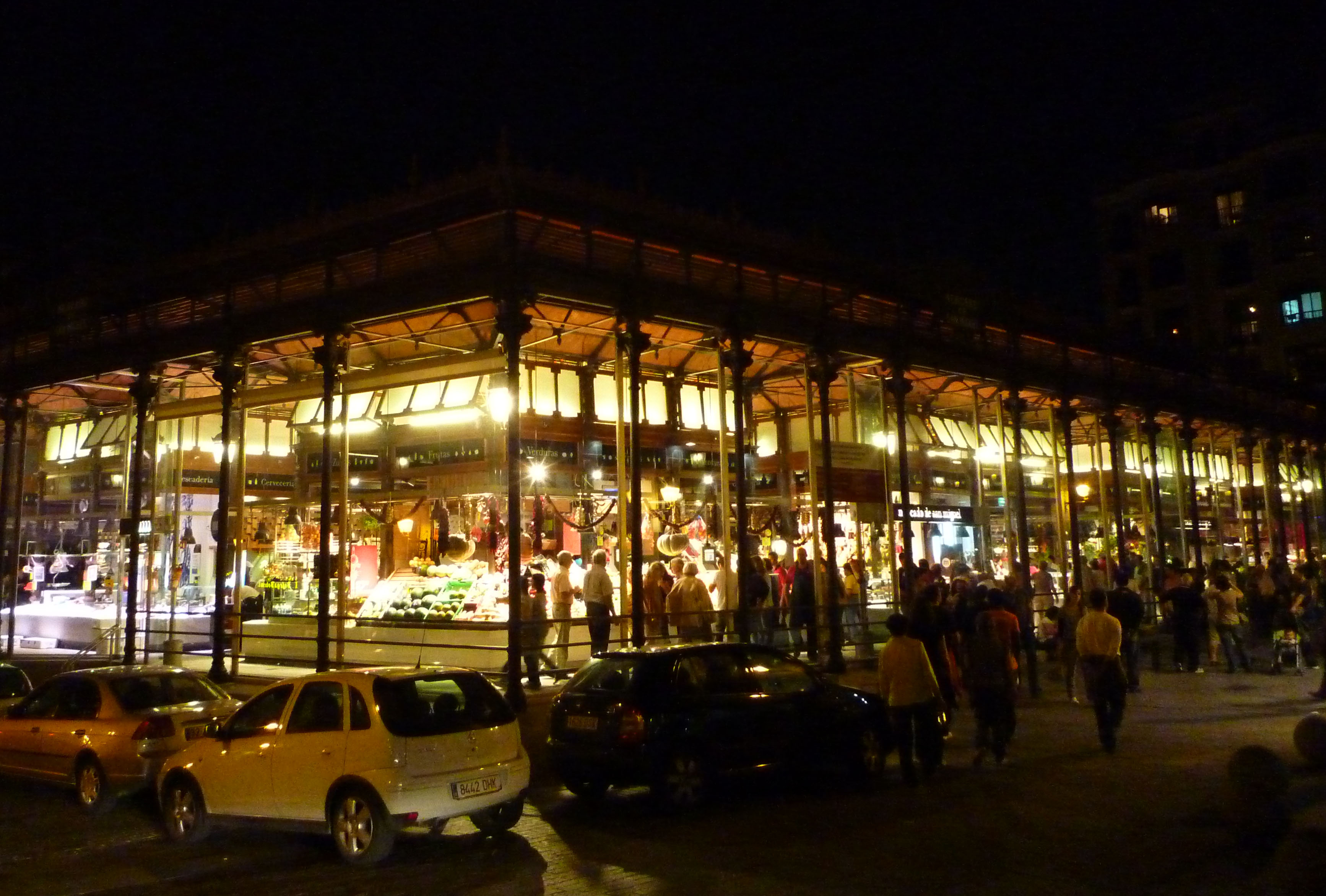 Mercado de San Miguel (a market) in Madrid (Spain).